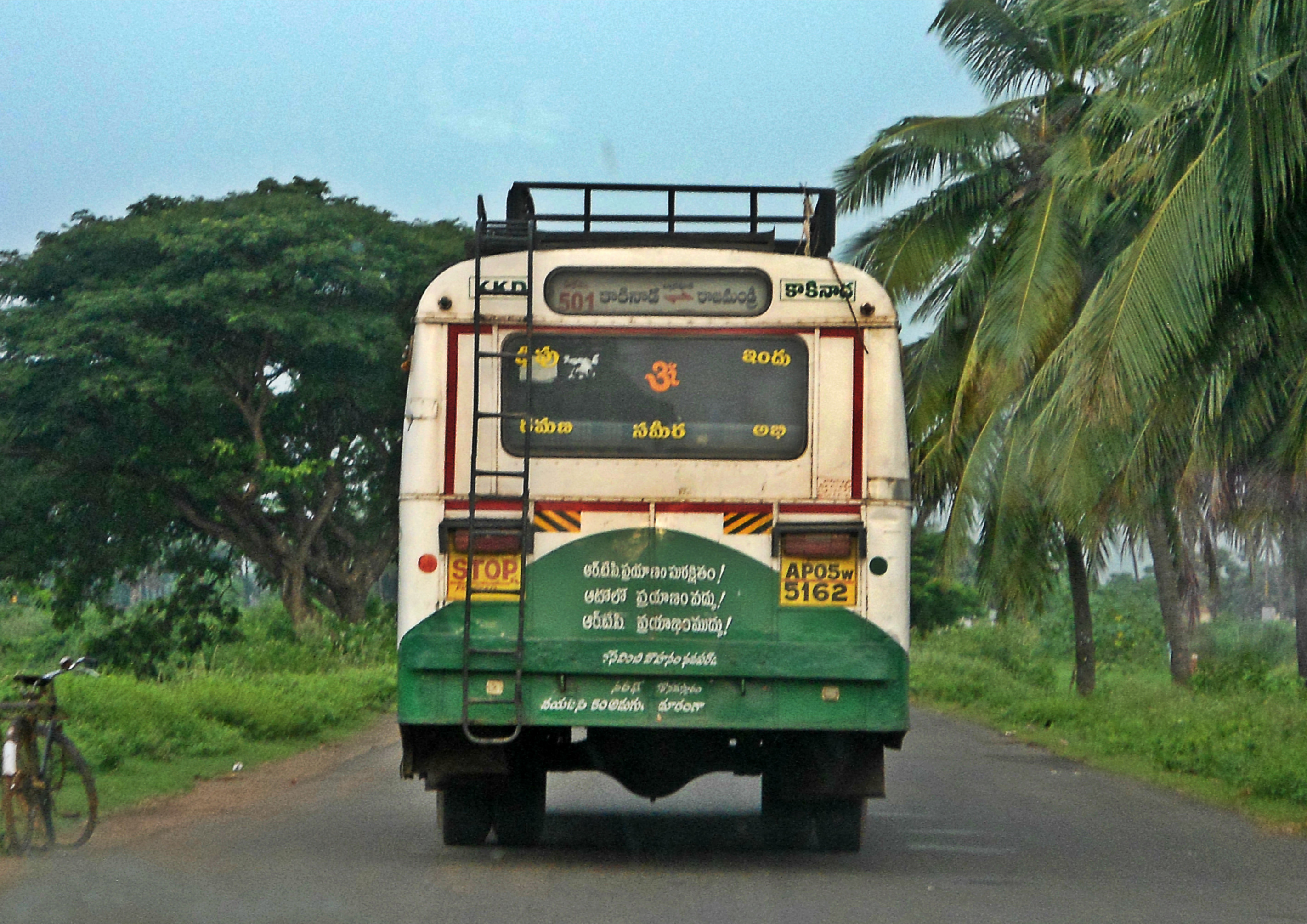 An APSRTC ordinary Bus at Biccavolu in East Godavari district